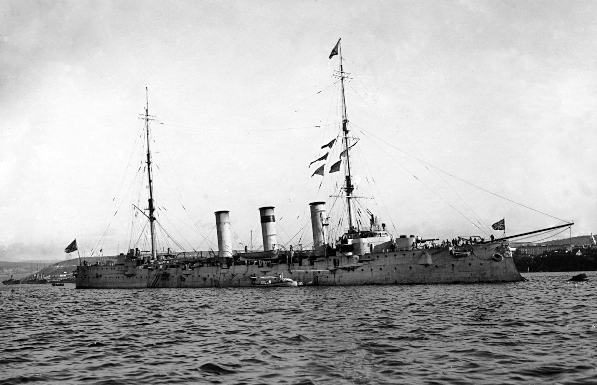 The Russian cruiser «Pamyat' Merkuriya» during the World War I.